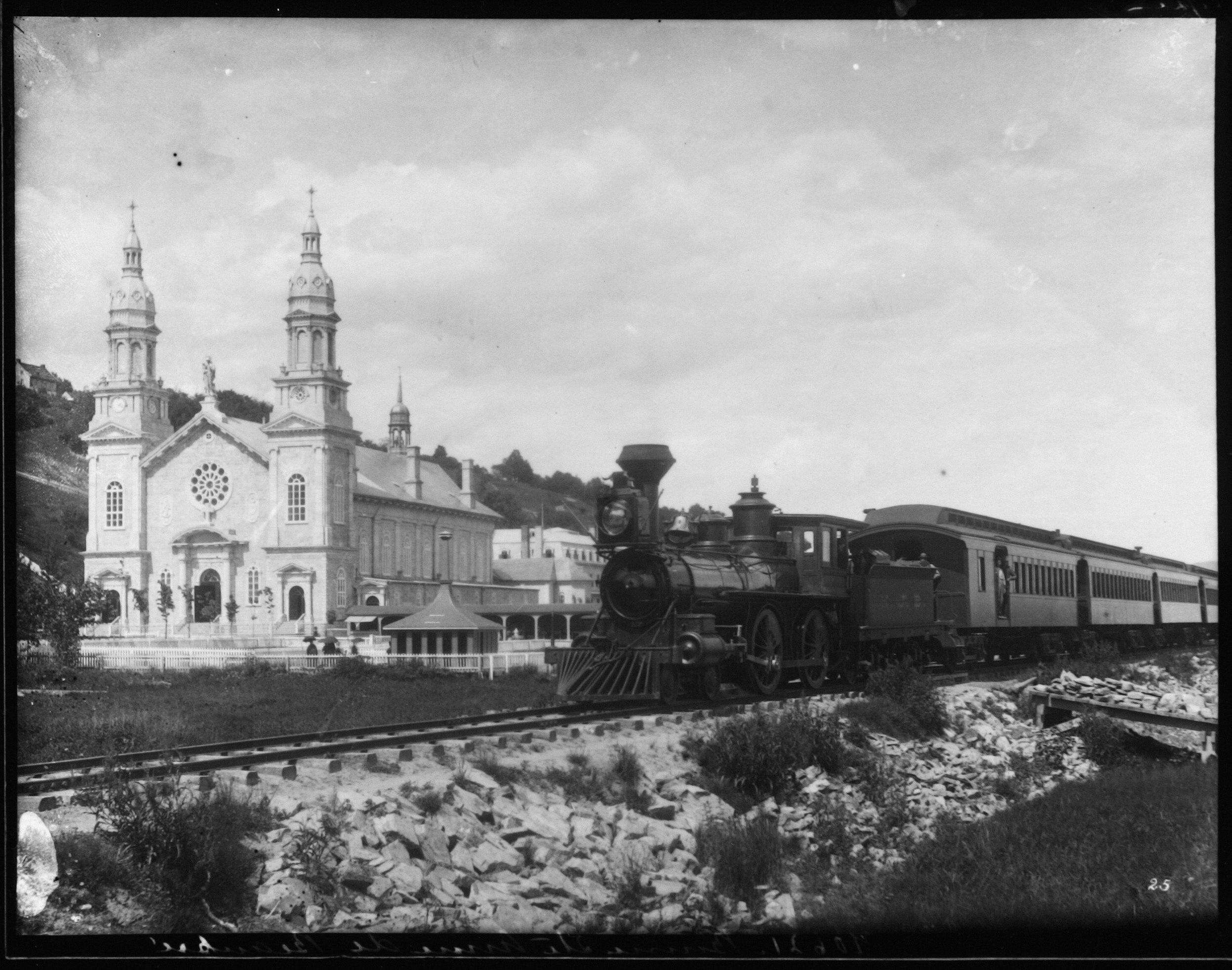 Photo of a steam locomotive in front of basilic Ste-Anne de Beaupré, used by Quebec, Montmorency & Charlevoix Railway to illustrate it's 1893 Time Table. The "HJB" on the tender side is for Horace Jensen Beemer.